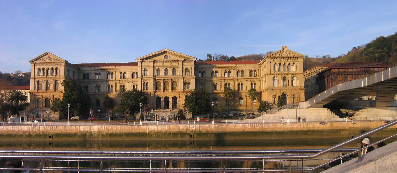 Photo of the main building of the Deusto University in Bilbao, Spain.